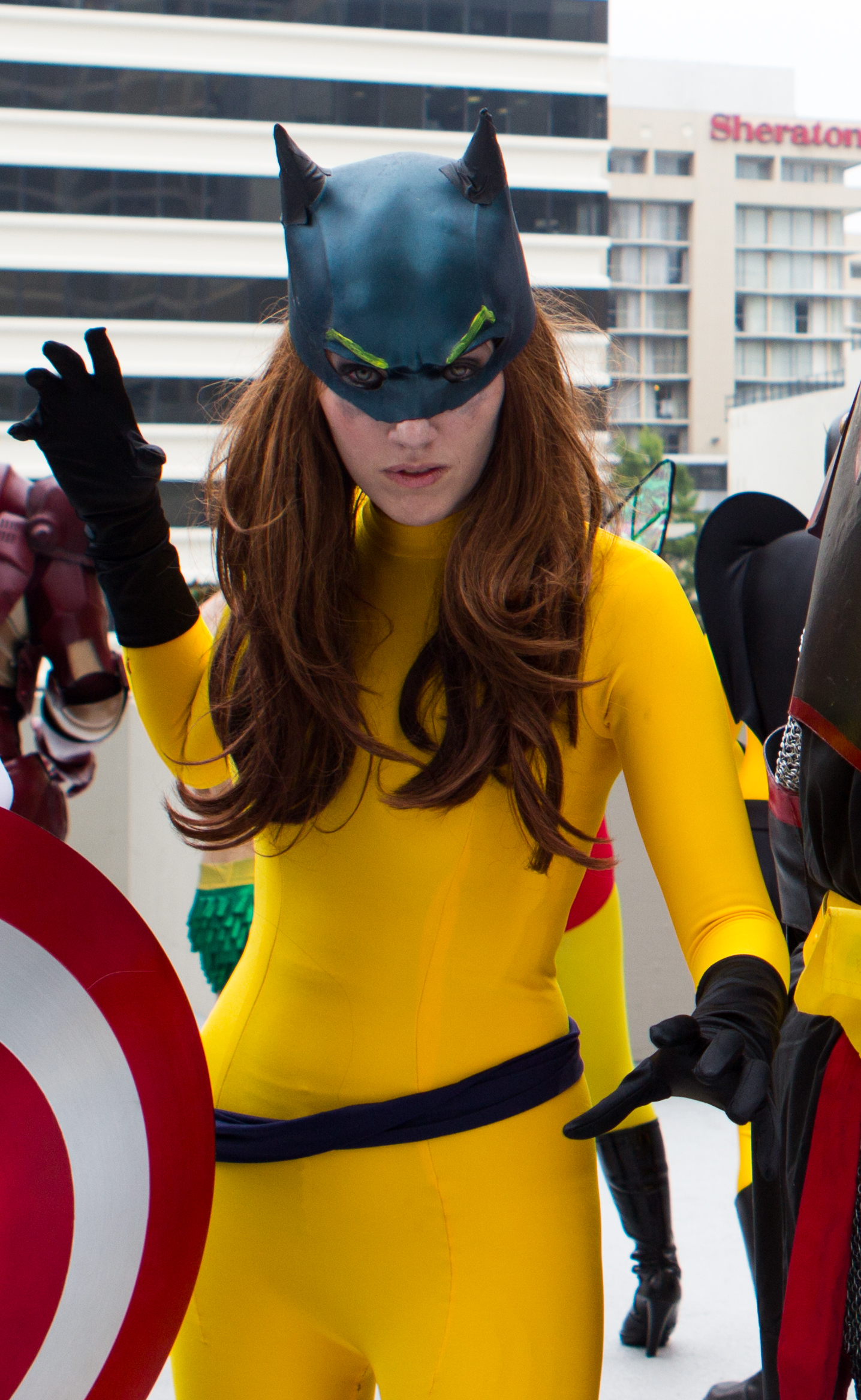 Cosplay of Hellcat, Dragon Con 2013